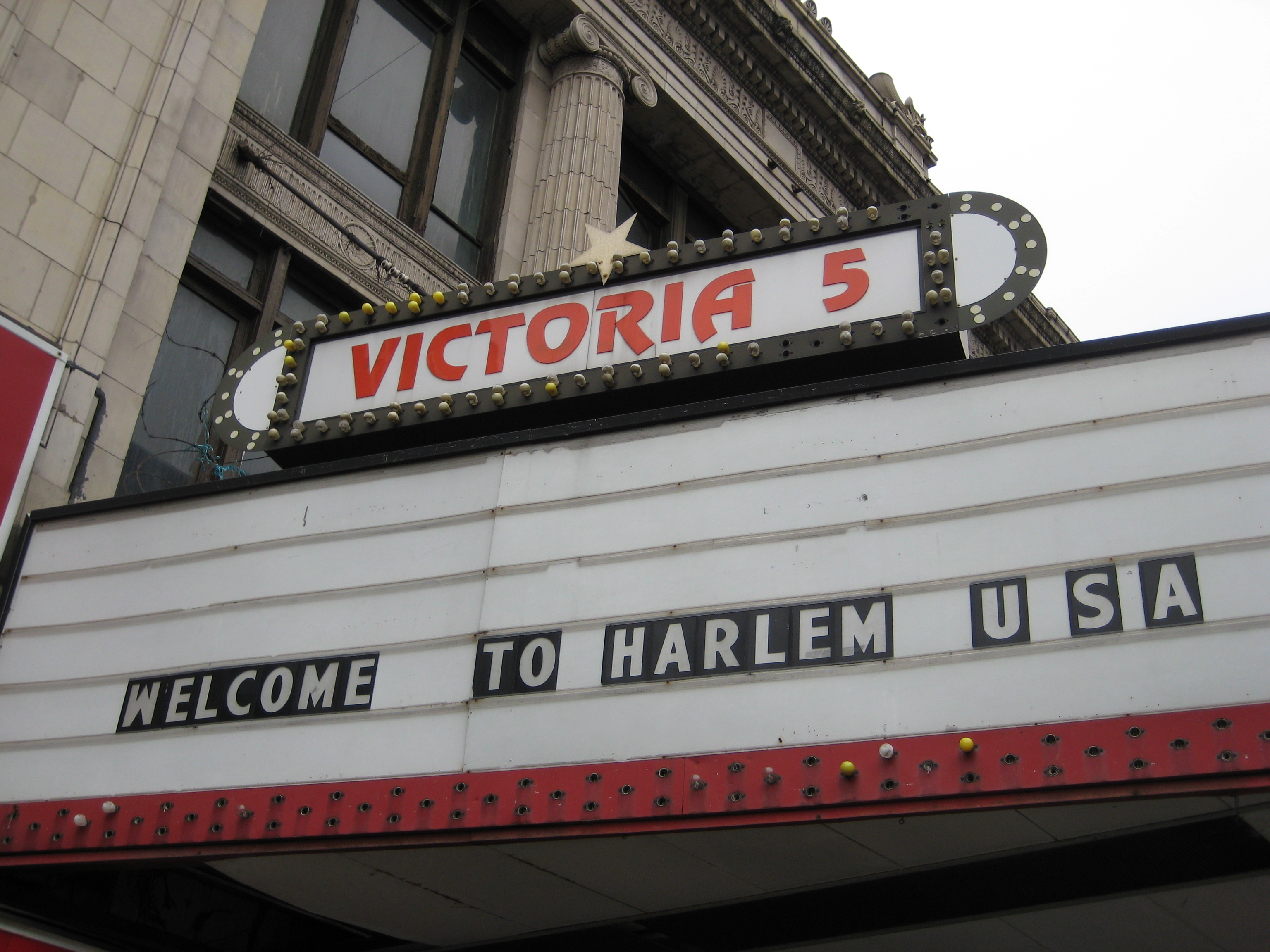 Welcome #2 - Harlem